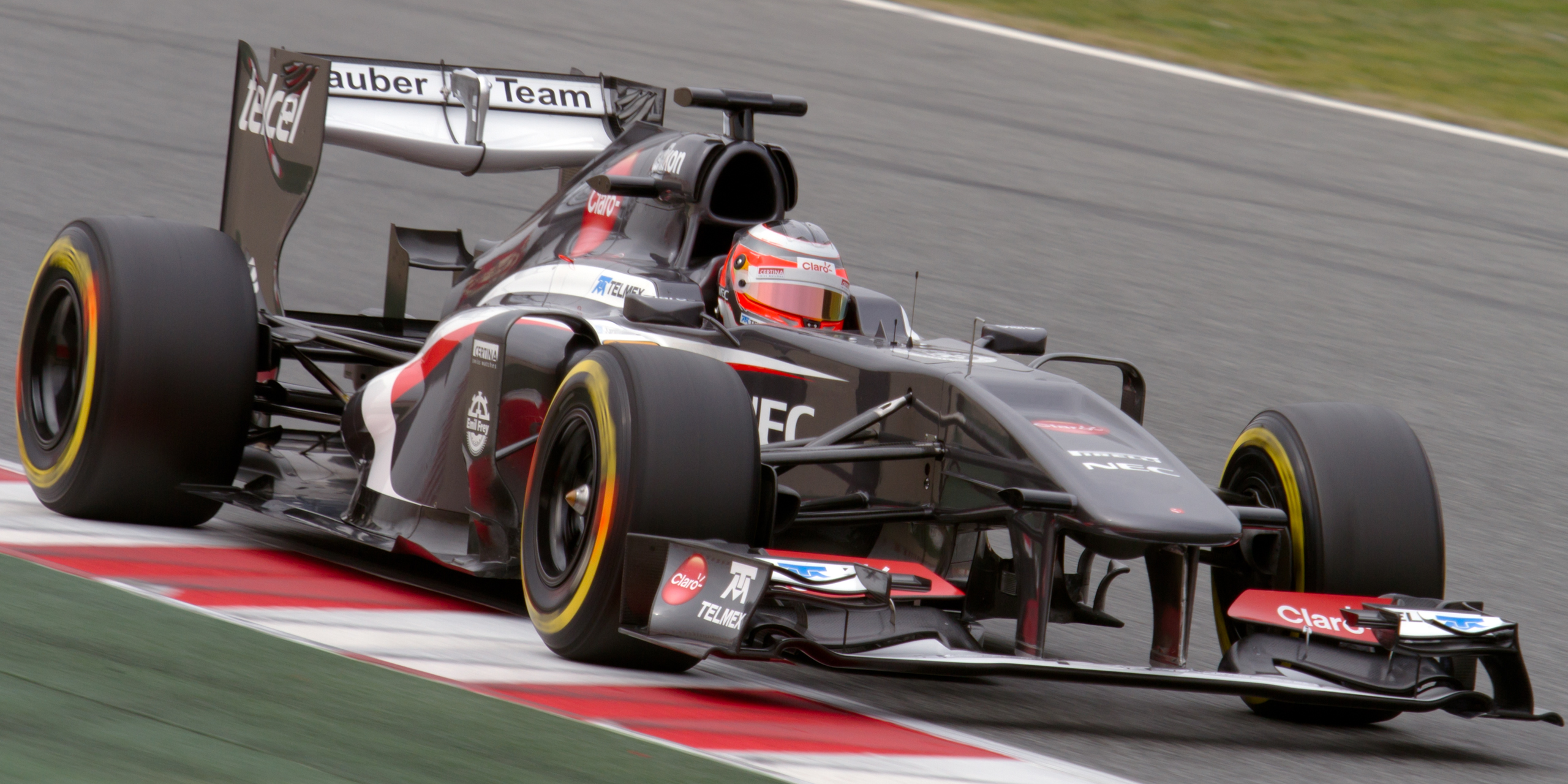 Formula One 2013 Catalonia test (19-22 February): Nico Hülkenberg (Sauber)